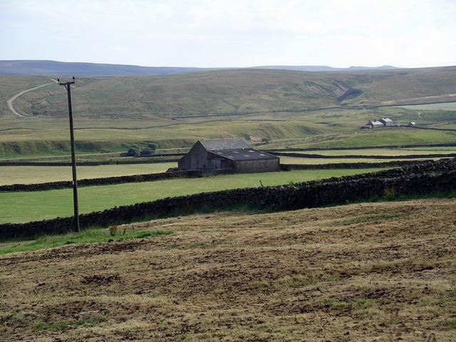 Bowes Moor. Wild and beautiful on a summer's day, bleak and forbidding in the winter when the roads are blocked by snow. A few farm buildings dot the landscape and just up the road is the well-known Bowes Moor Hotel, a welcome retreat.